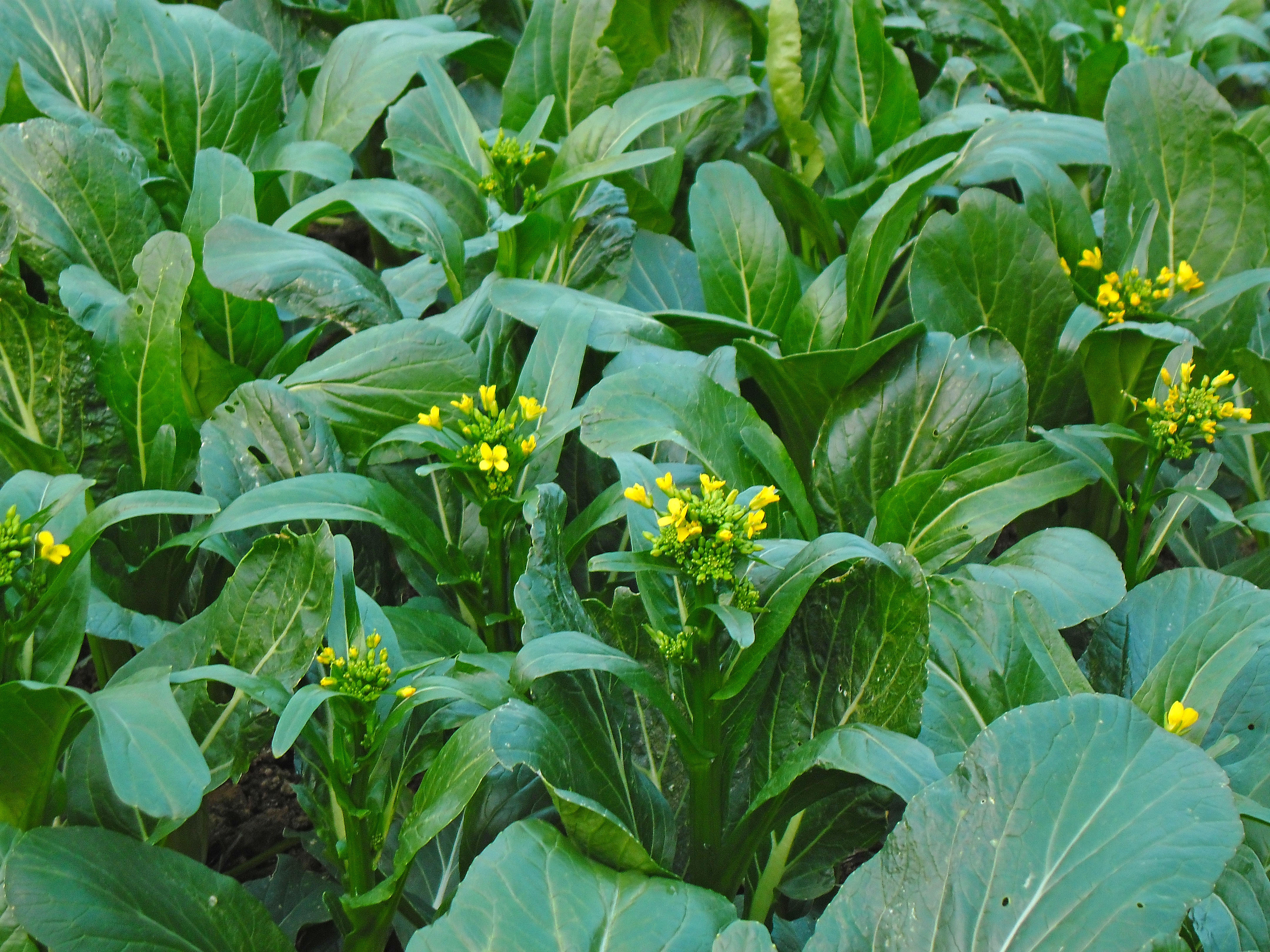 Photograph of Choi Sums, the flowering cabbage, growing in a large farm, as taken by Earth100.